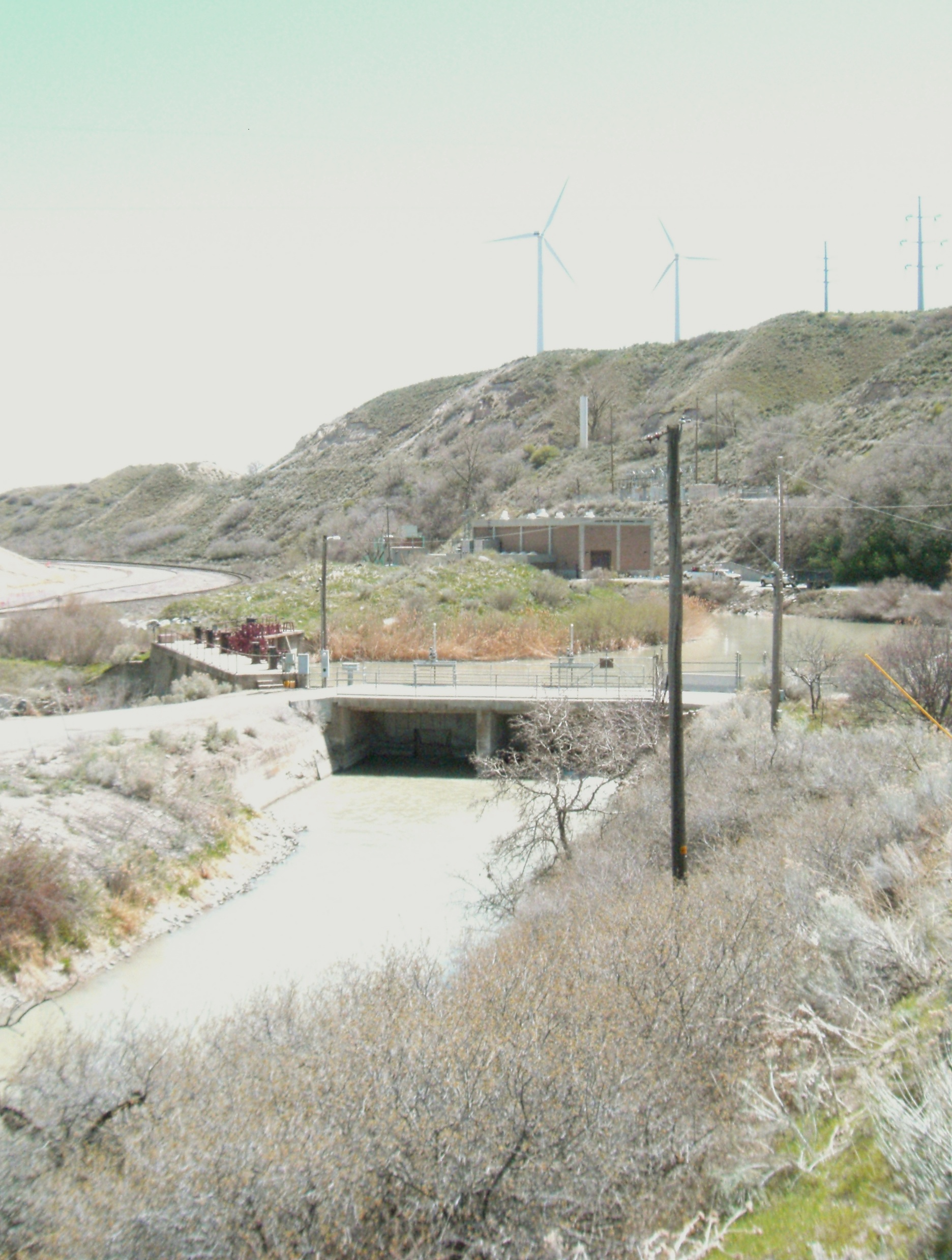 Jordan River dam and pumping station in the Jordan River Narrows. Pumping station pumps water up to a pipe to the Kennecott Copper Mine. Jordan River flows to the left and body of water in front flows to several canals. Train tracks shown are left are for FrontRunner commuter rail service.